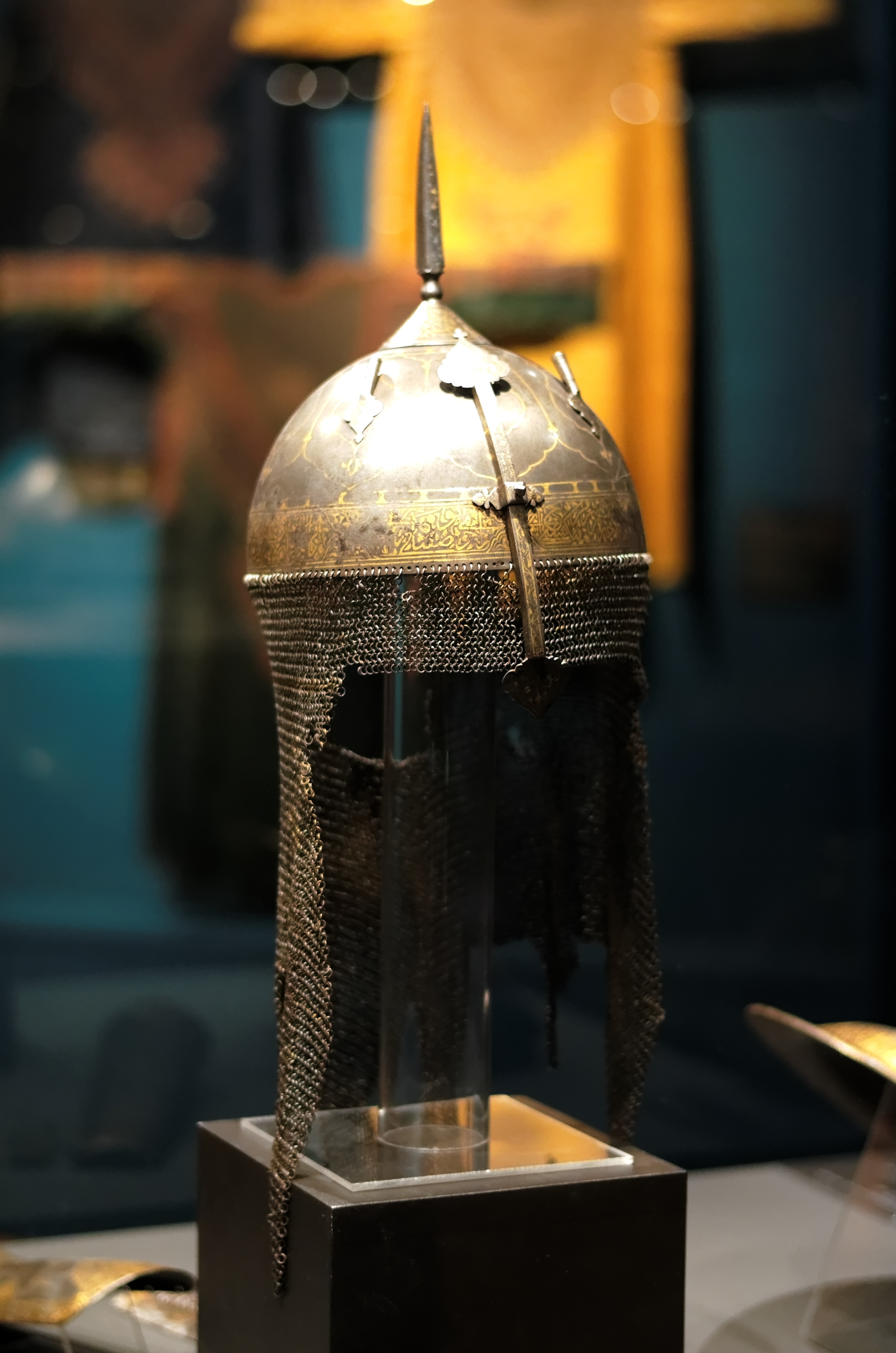 Helmet, Iran, Qajar dynasty (1796-1925). Steel and gold inlay. Purchased from Mrs József Cziráky , 1961